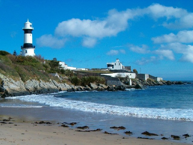 Lighthouse at Dunagree Point, Inishowen. Western Ireland (Ulster and Connacht)